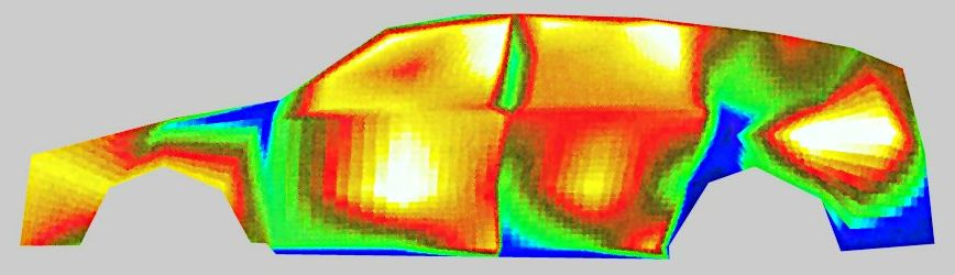 Body Vibration Due to Road Excitation. Measurement by FKFS, Stuttgart, Germany